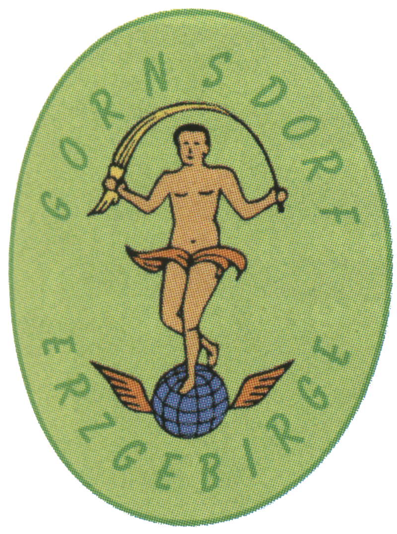 Coat of arms of Gornsdorf